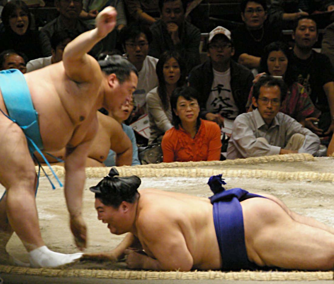 A sumo bout between tamanoshima and toyonoshima, Tokyo, October 2007